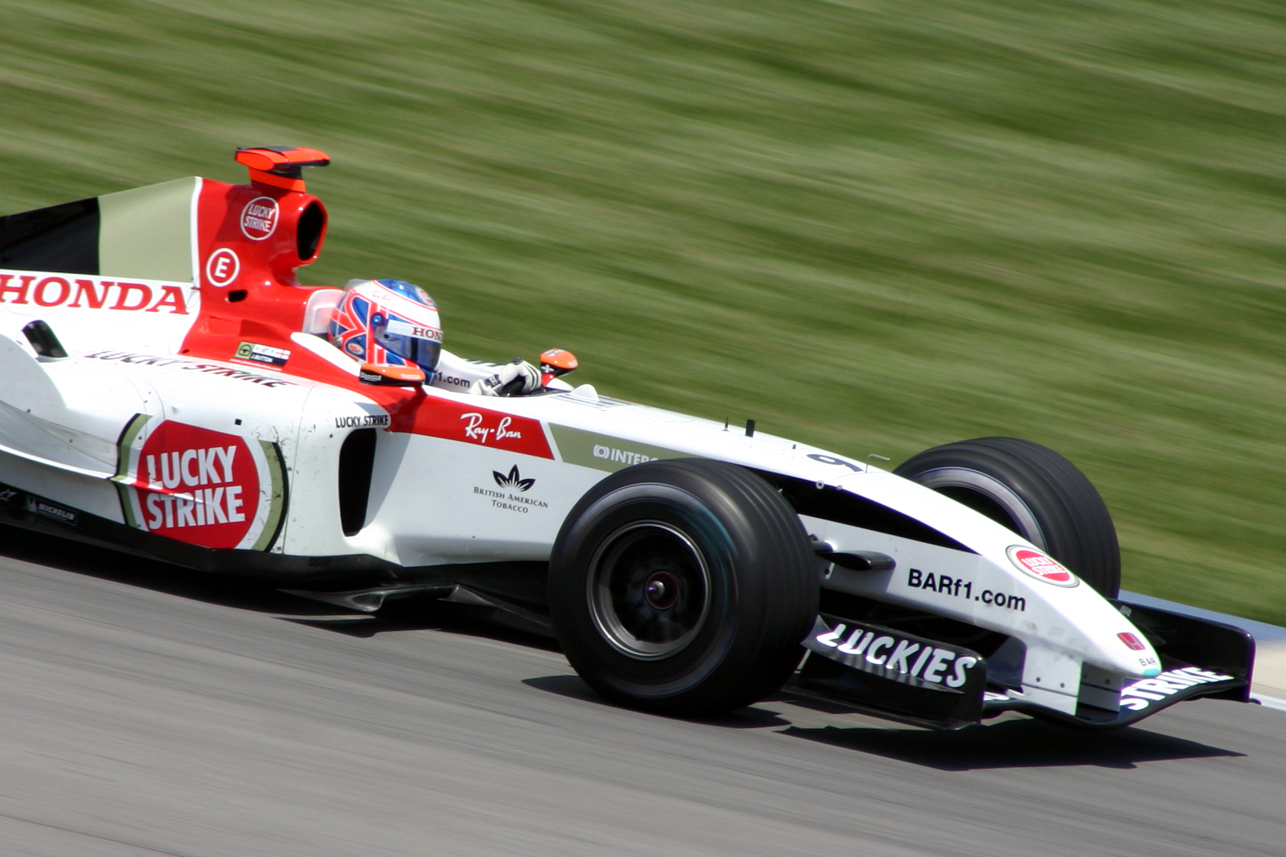 Jenson Button driving for the British American Racing Formula One team at the United States Grand Prix at Indianapolis, 2004